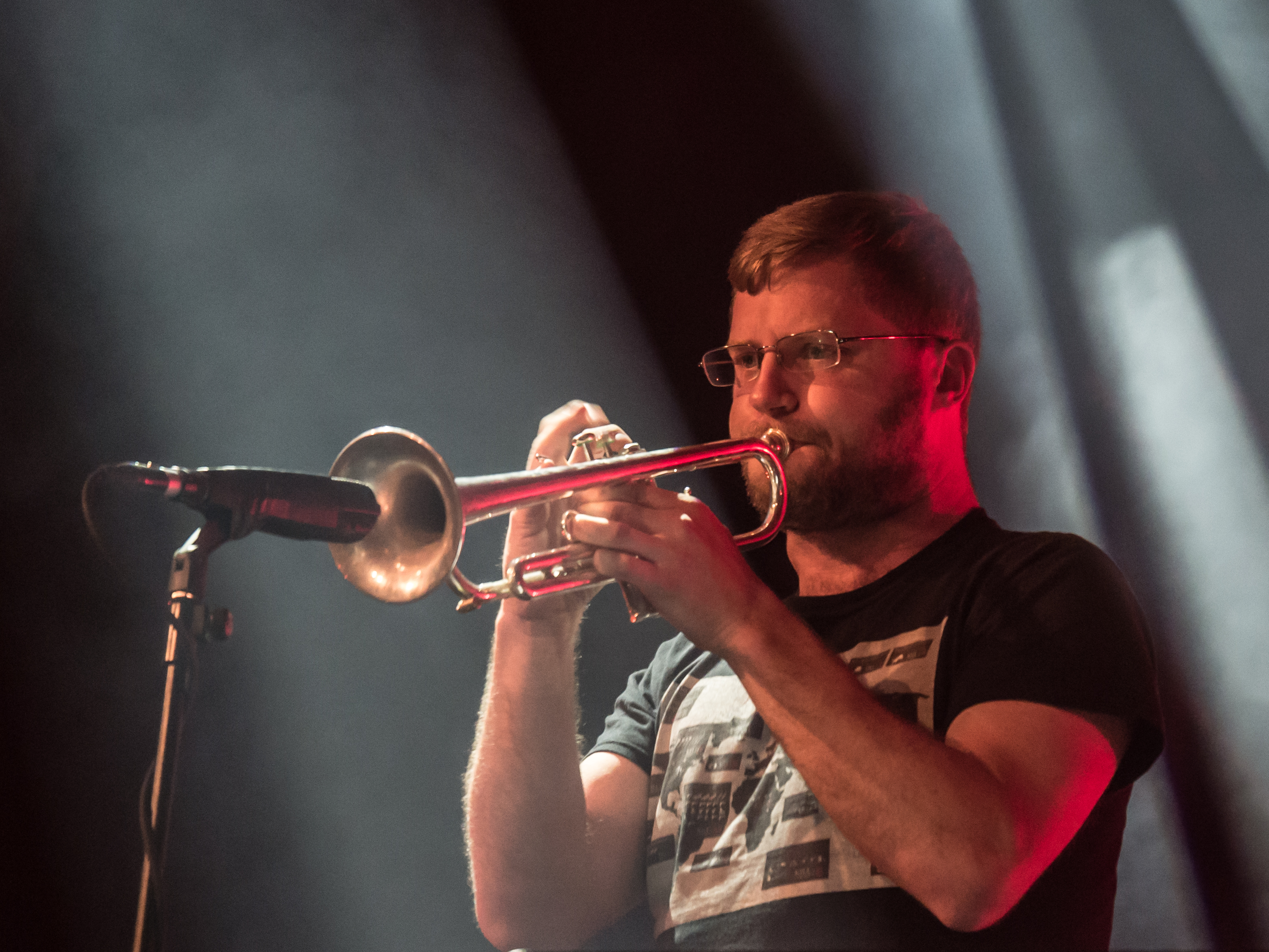 US-american trumpet player Peter Evans at the Moers Festival 2015